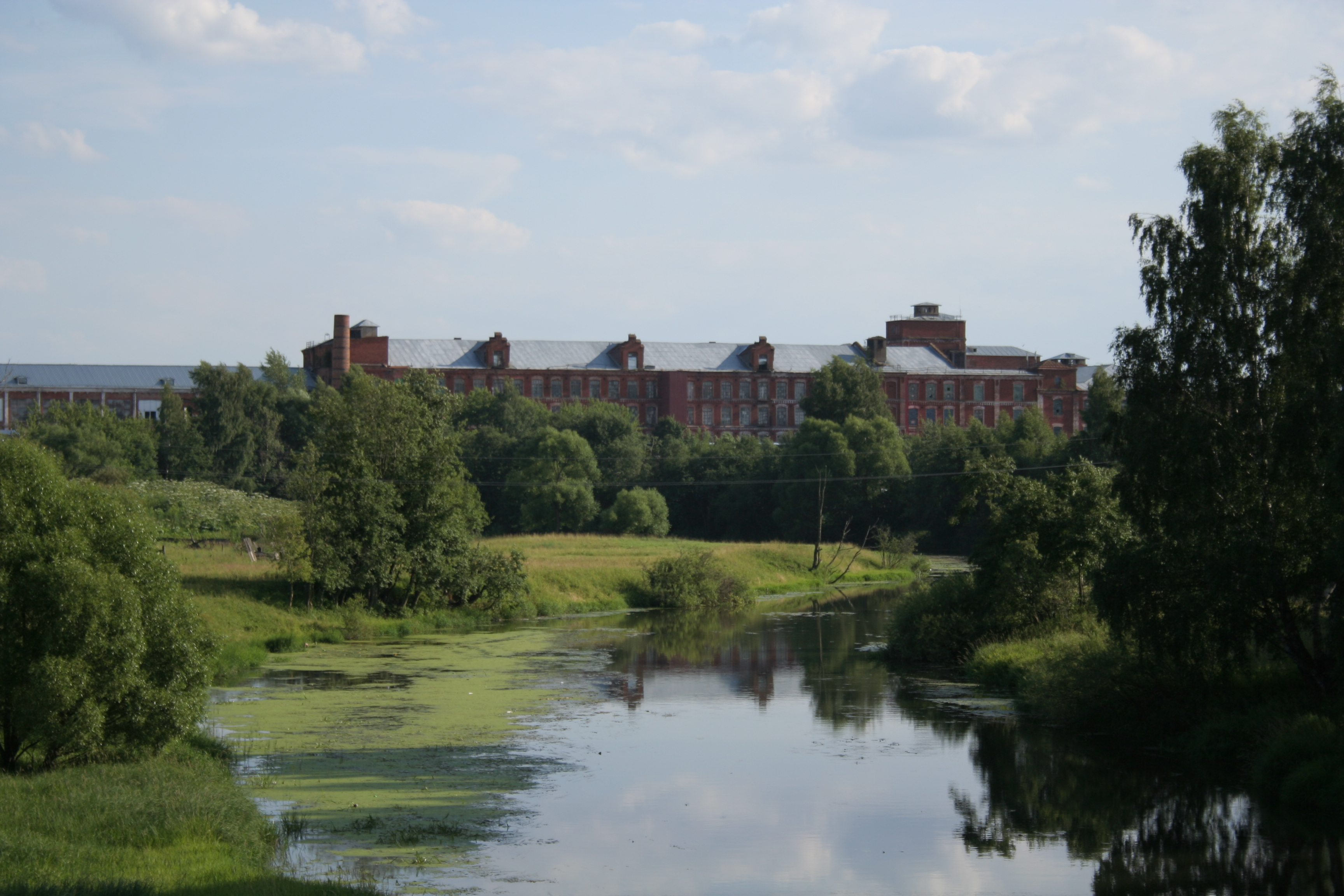 Old factory building in Krasnoarmeysk, Moscow Oblast, Russia